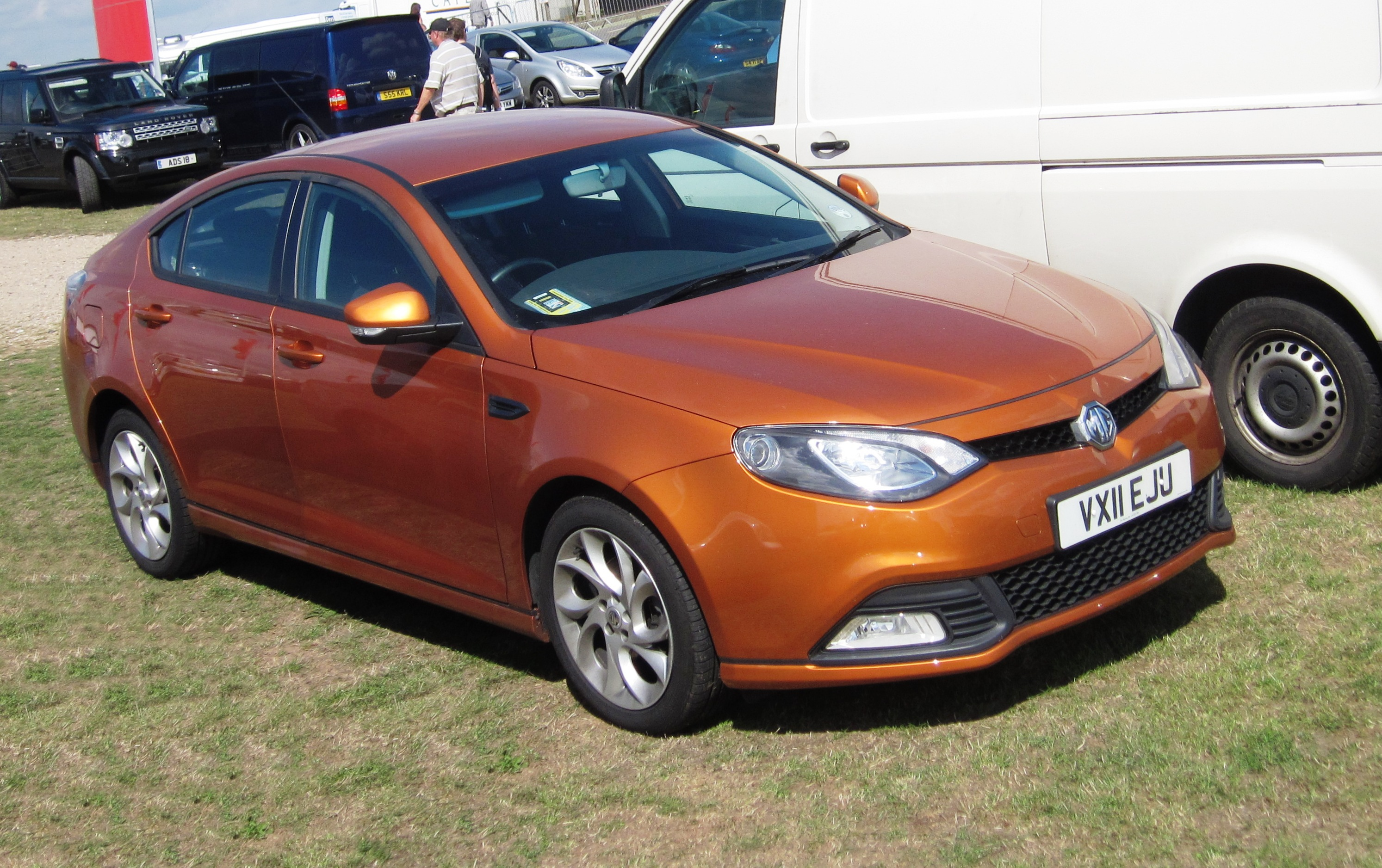 MG Six registered August 2011 1796cc